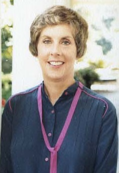 Sarah Brady at White House in 1984